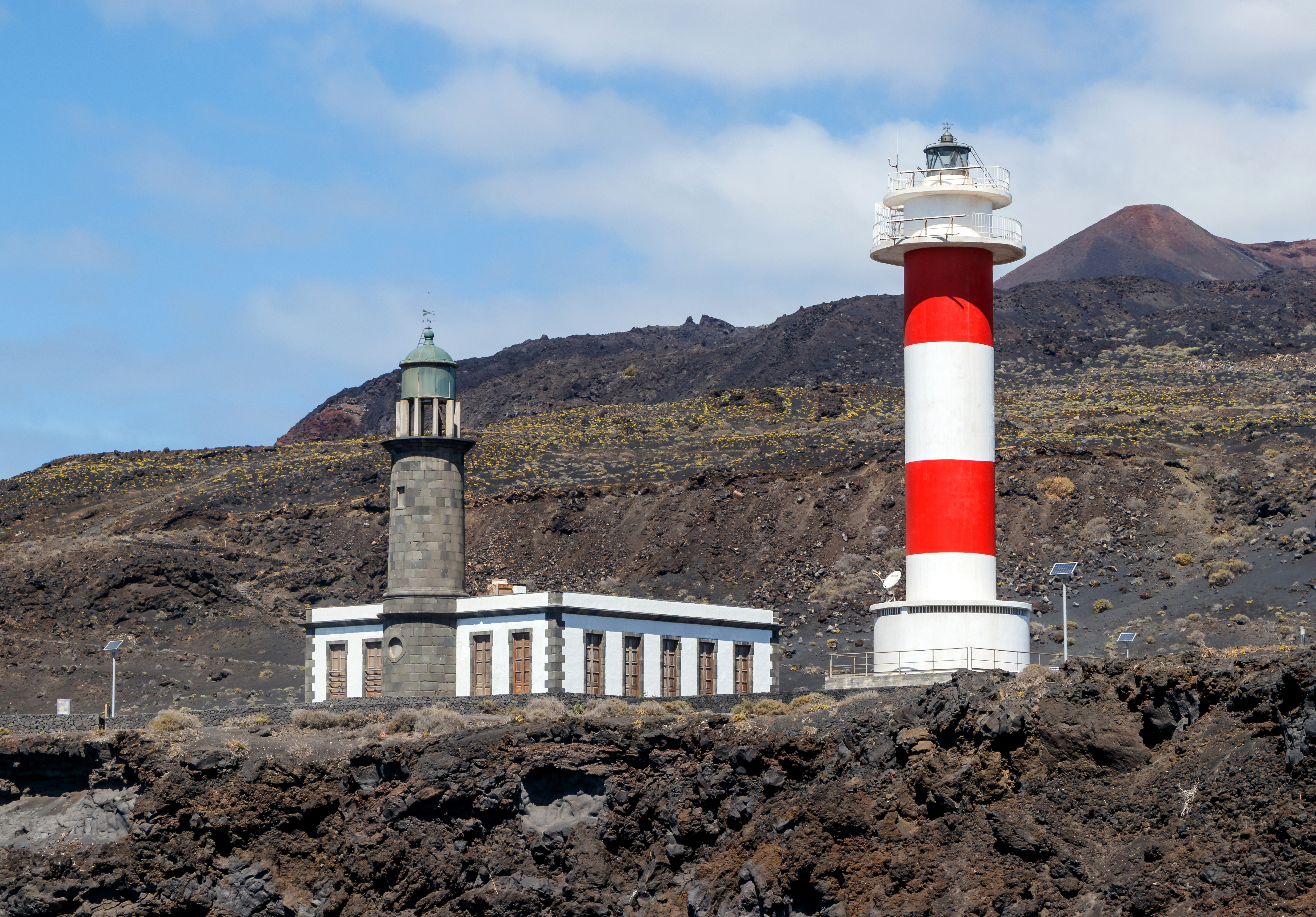 Viejo Faro and Nuevo Faro de Fuencaliente (Old and new lighthouse of Fuencaliente), Fuencaliente, La Palma, Canary Islands, Spain.